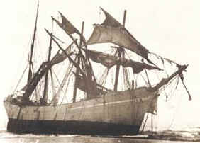 The wreck of the Peter Iredale shortly after it ran aground in en:1906. Image obtained from [1]